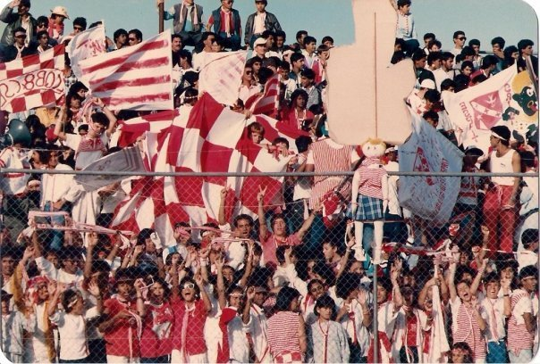 The college at old times